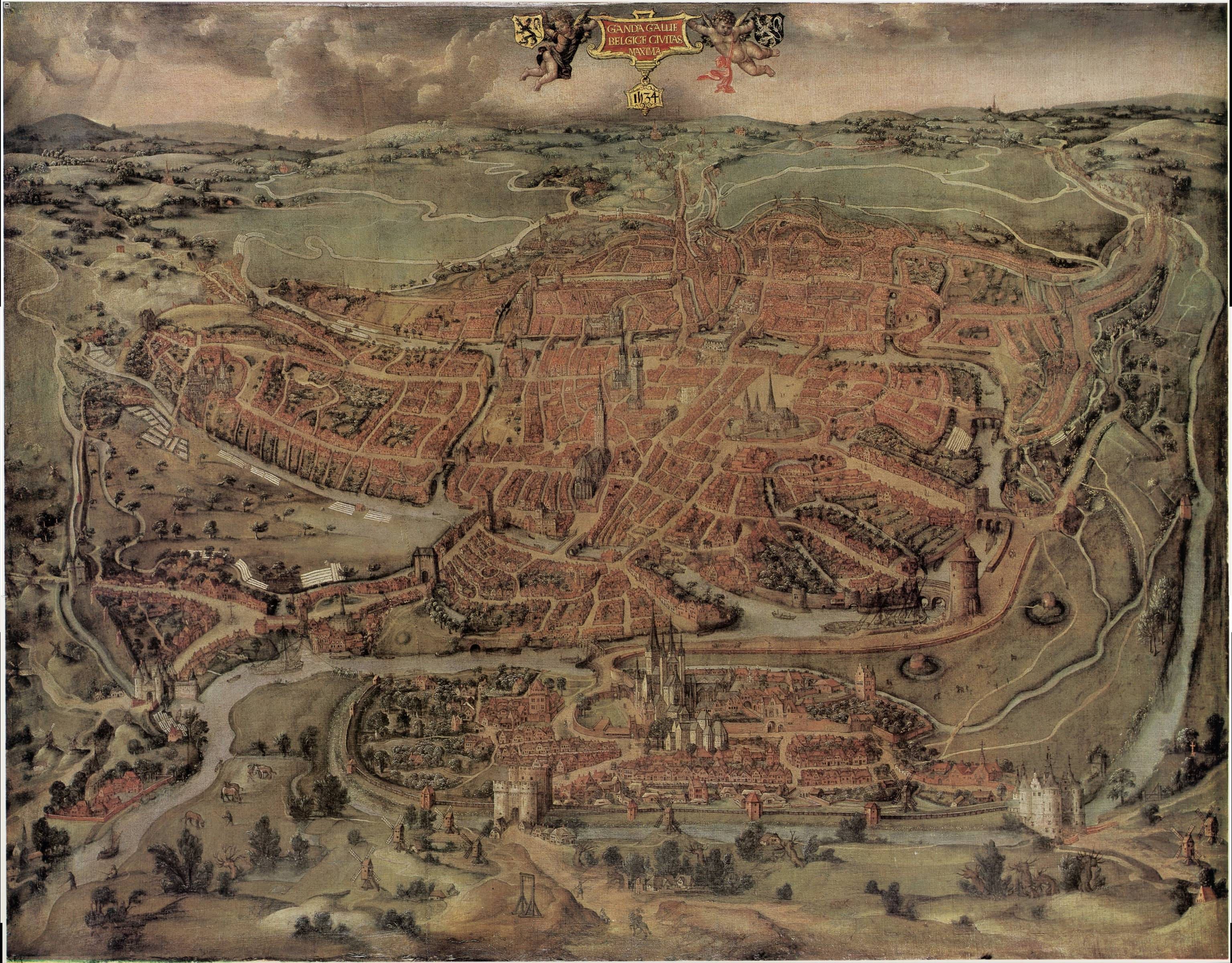 View_on_Ghent,_1534.jpg